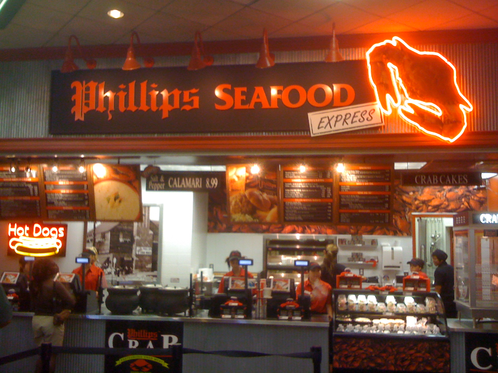 Phillips Seafood Express at Maryland House, a rest stop on the JFK Memorial Highway.